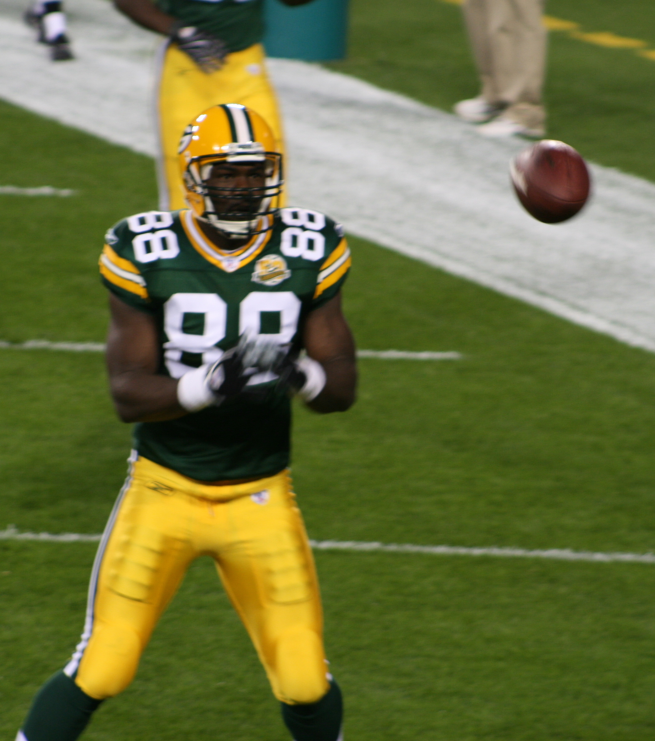 Tight end Bubba Franks warming up before a game.